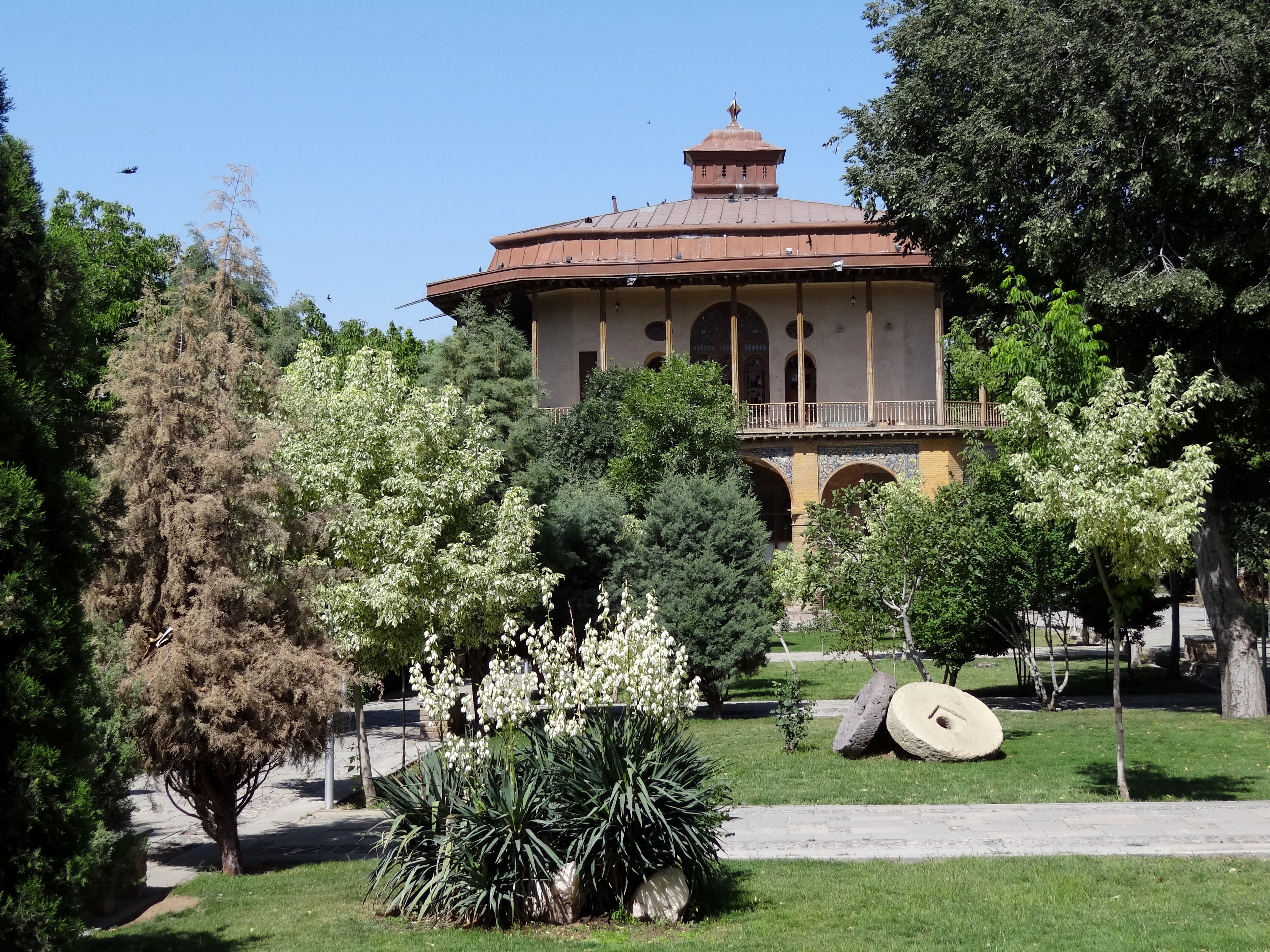 Chehel Sotun - Shah Tahmasp's Royal Palace - Qazvin - Northwestern Iran